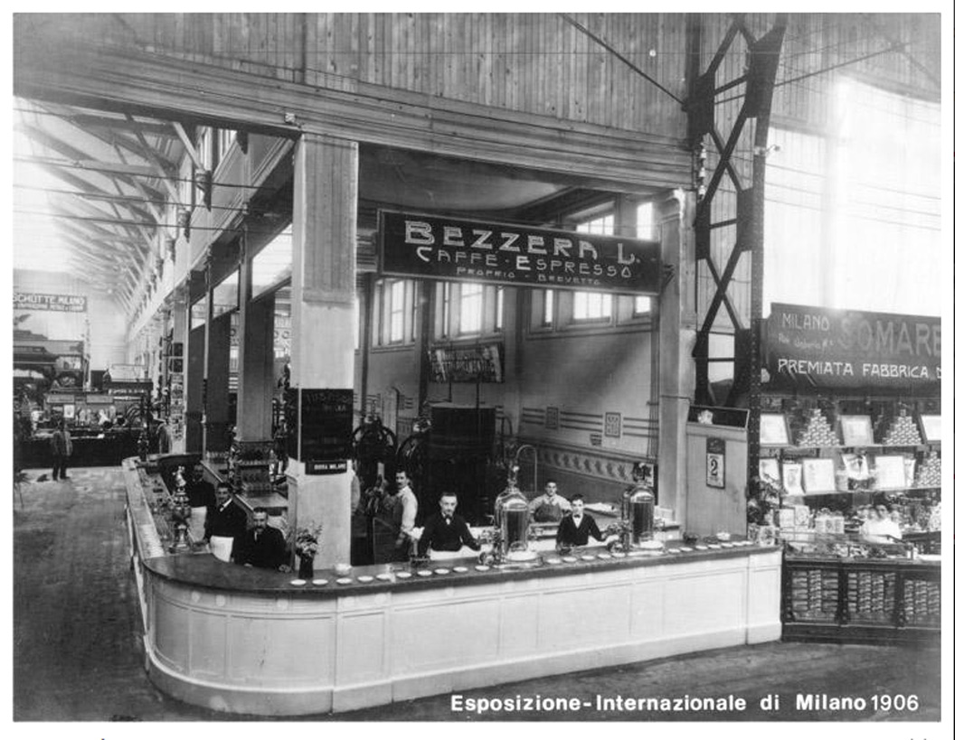 Luigi Bezzera and "caffe espresso" at the World Expo 1906 in Milan.